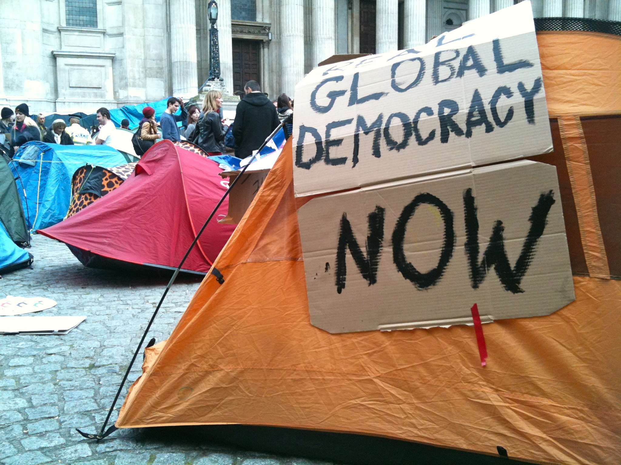 Global Democracy Now Occupy London Tents in front of St Pauls, London Sunday 16th October 2011